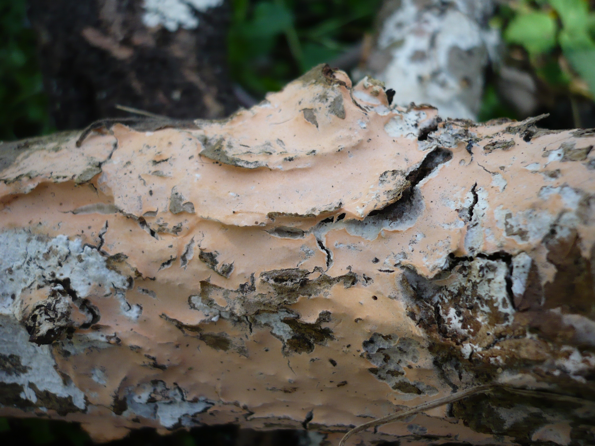 The crust fungus Erythricium laetum (P. Karst.) J. Erikss. & Hjortstam. Specimen photographed in Unterschölling-Hirmer Wald, Pöttsching,Bezirk Mattersburg, Burgenland, Austria.